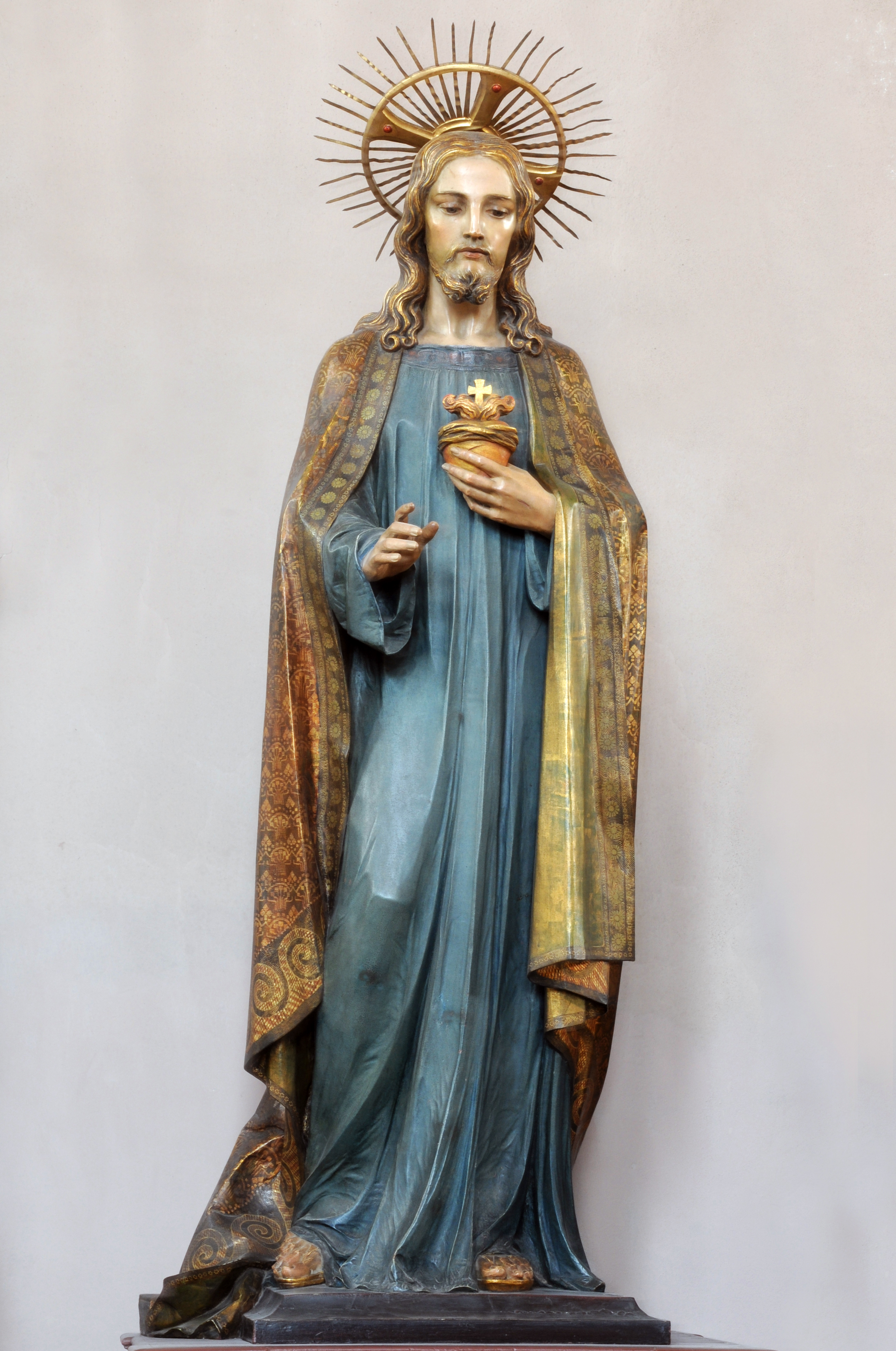 Lifesize polychromed wooden statue of the sacred heart of Jesus Christ, from the parish church of St. Ulrich in Gröden - Sculptor Ludwig Moroder in 1914.